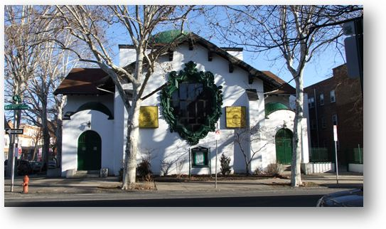 The North American Headquarters of the Association of Islamic Charitable Projects is based out of Philadelphia, Pennsylvania. The AICP of North America encourages Muslims to better themselves through education and academic excellence, as well as expanding employment opportunities for themselves and other Muslims.